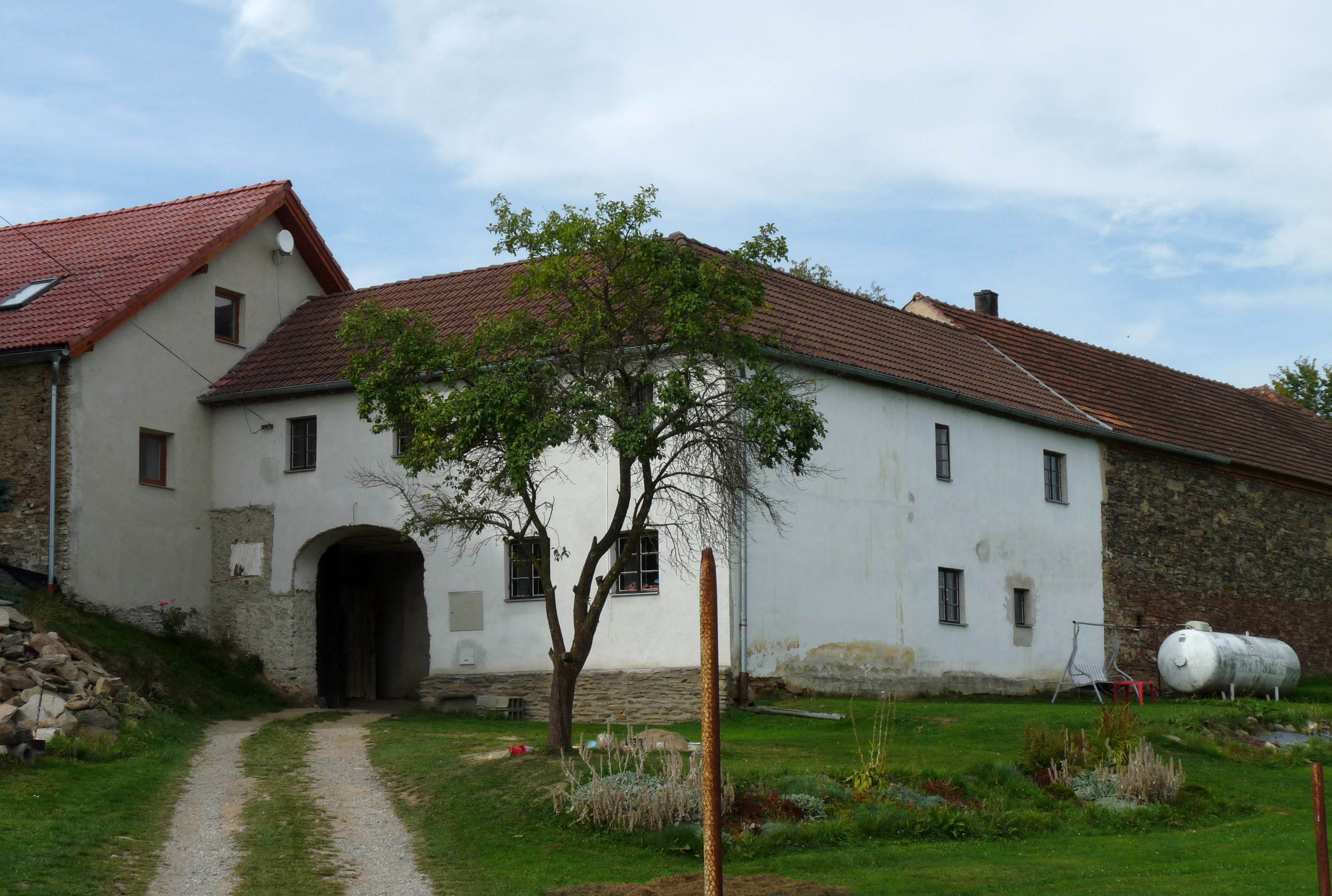 House No 1 in the village of Střítež, Český Krumlov District, South Bohemian Region, Czech Republic.